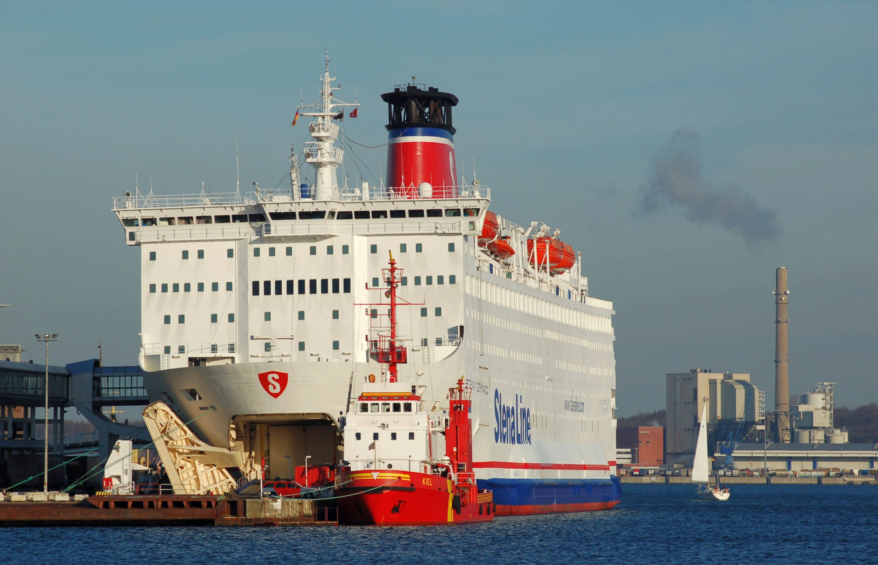 Stena Line ferry Kiel-Gothenburg, as in Kiel port. Image data: Ferry Stena Germanica IMO Number: 7907659 MMSI Number: 265292000 Callsign: SKPZ Length: 175.4 m Beam: 30.8 m Nikon D50, AF Nikkor 80-200/2,8 IF-ED ImageWidth - 160 ImageLength - 120 BitsPerSample - 8 8 8 Compression - 1 (None) PhotometricInterpretation - 2 Make - NIKON CORPORATION Model - NIKON D50 StripOffset - 35486 Orientation - Top left SamplesPerPixel - 3 RowsPerStrip - 120 StripByteCount - 57600 XResolution - 300 YResolution - 300 PlanarConfiguration - 1 ResolutionUnit - Inch Software - Ver.1.00 DateTime - 2008:01:13 13:33:29 ReferenceBlackWhite - 0 ExifOffset - 468 DateTimeOriginal - 2008:01:13 13:33:29 ExposureTime - 1/1600 seconds FNumber - 5.00 ExposureProgram - Normal program DateTimeOriginal - 2008:01:13 13:33:29 DateTimeDigitized - 2008:01:13 13:33:29 ExposureBiasValue - 0.00 MaxApertureValue - F 2.83 MeteringMode - Multi-segment LightSource - Auto Flash - Not fired FocalLength - 160.00 mm UserComment - SubsecTime - 40 SubsecTimeOriginal - 40 SubsecTimeDigitized - 40 SensingMethod - One-chip color area sensor FileSource - Other SceneType - Other CustomRendered - Normal process ExposureMode - Auto White Balance - Auto DigitalZoomRatio - 1 x FocalLengthIn35mmFilm - 240 mm SceneCaptureType - Standard GainControl - None Contrast - Normal Saturation - Normal Sharpness - Normal SubjectDistanceRange - Unknown Maker Note (Vendor): - Data version - 0210 (808595760) ISO Setting - 200 Image Quality - RAW White Balance - AUTO Image Sharpening - AUTO Focus Mode - AF-S Flash Setting - REAR SLOW Flash Mode - White Balance Adjustment - 0 Exposure Adjustment - 68608 Thumbnail IFD offset - 7238 Flash Compensation - 67072 ISO 2 - 200 Tone Compensation - AUTO Lens type - AF Lens - 642 Flash Used - Not fired AF Focus Position - Top Bracketing - 2097152 Contrast Curve - I Color Mode - MODE3a Light Type - NATURAL Hue Adjustment - 0 Noise Reduction - OFF Total pictures - 2555 Optimization - NORMAL